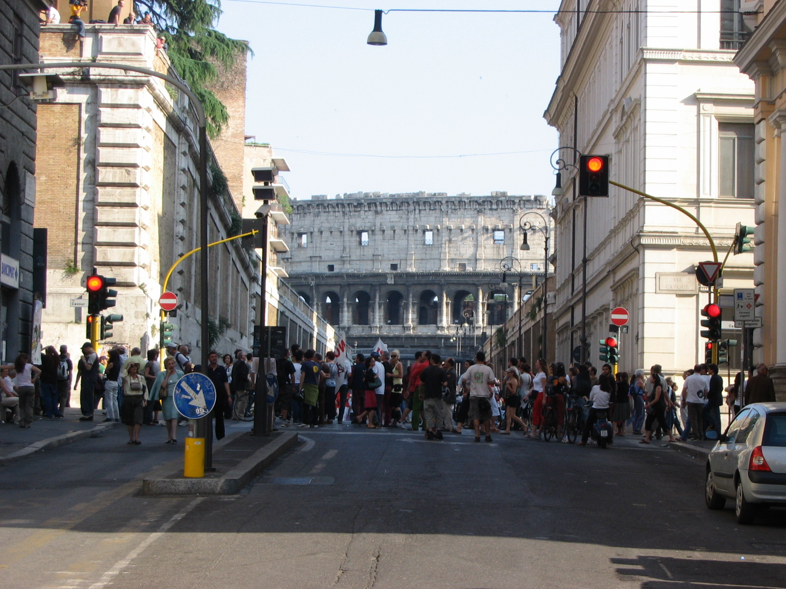 το κολοσσαιο